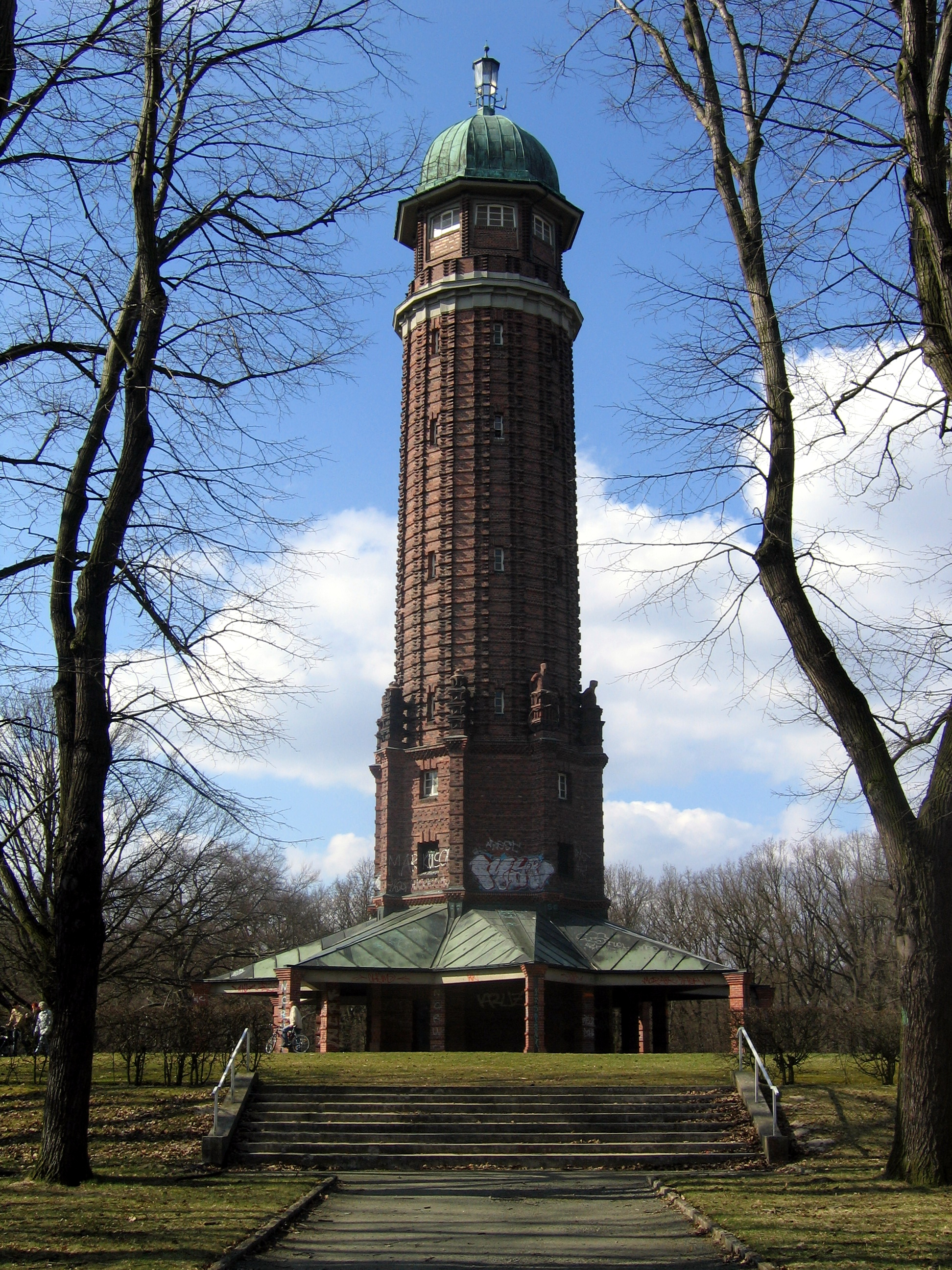 Description: Watertower in the Volkspark Jungfernheide in Berlin Photografer: Richardfabi License: Picture done by myself, PG Time: April 2006